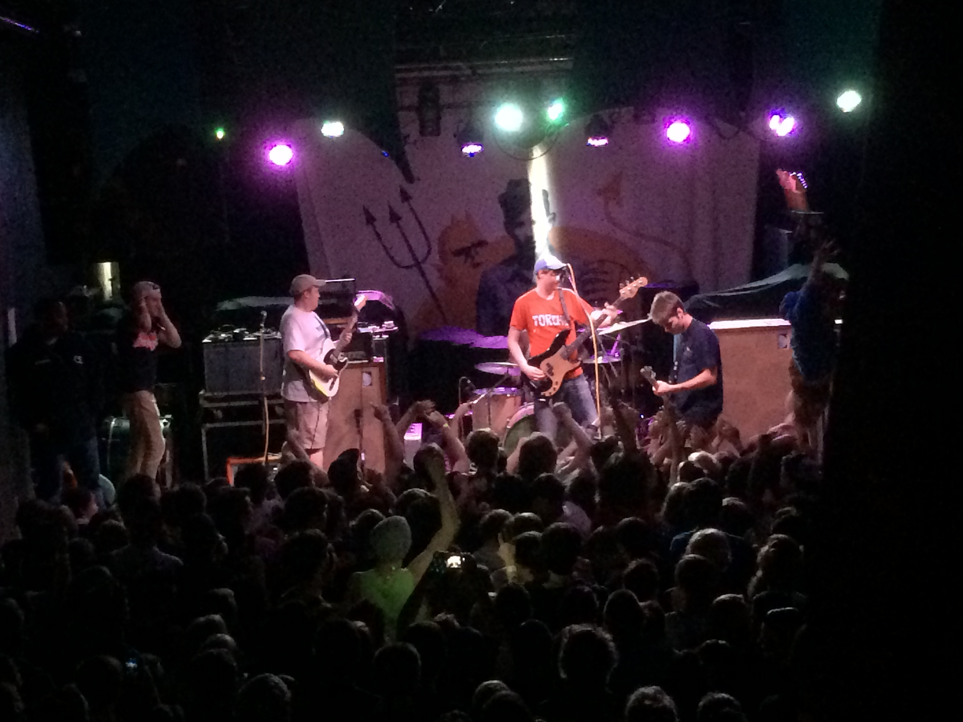 Modern Baseball performing at Greene Street Club in Greensboro NC on 4/10/14